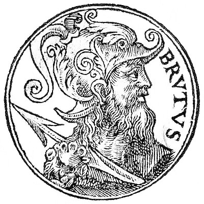 Brutus of Troy is a legendary descendant of the Trojan hero Aeneas, was known in medieval British legend as the eponymous founder and first king of Britain.